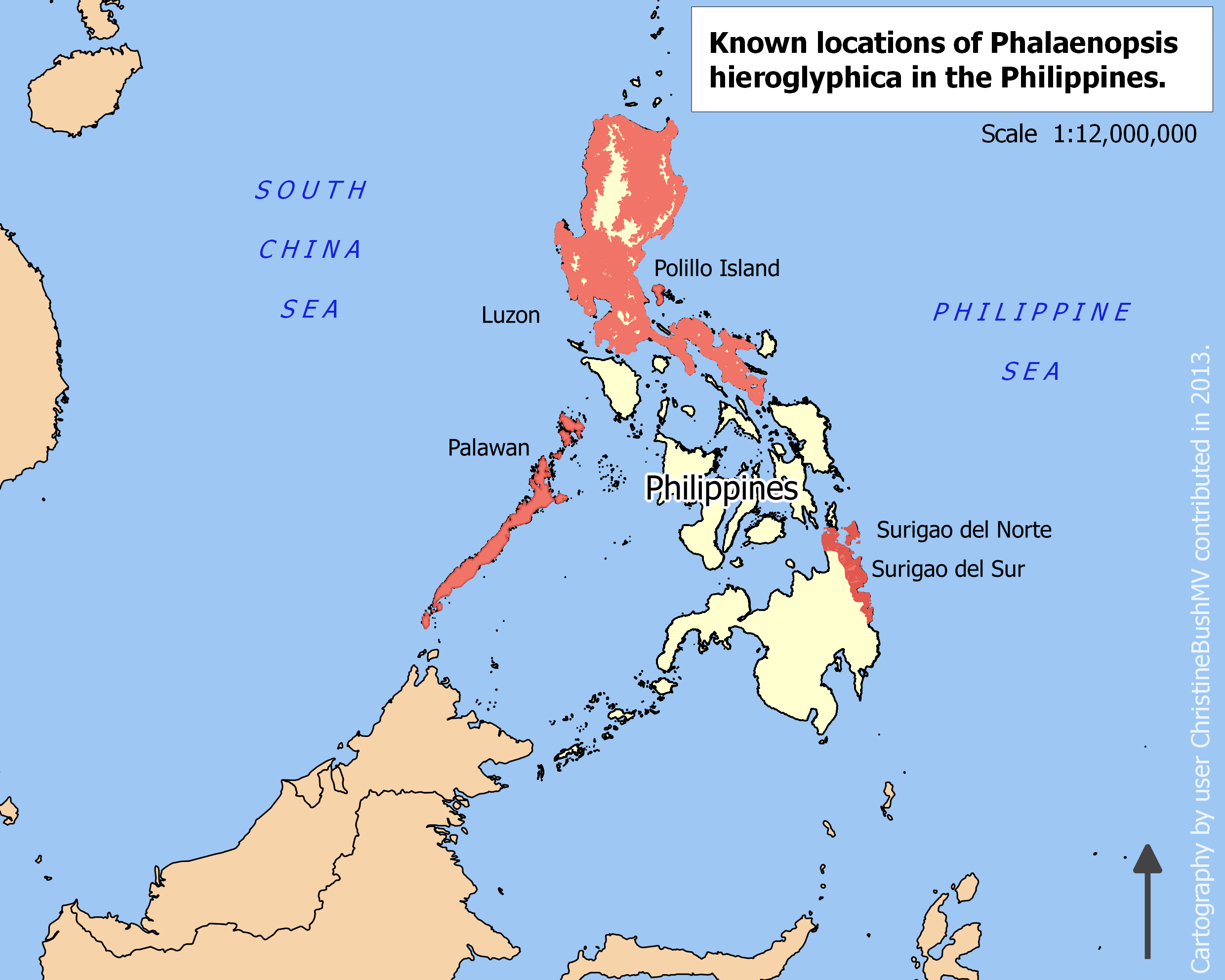 Map showing the known locations of Phalaenopsis hieroglyphica in five regions of the Philippines: Luzon, Palawan, Pollilo Island,Surigao del Norte, Surigao del Sur. Created with QGIS using data from and SRTM3 elevation data.